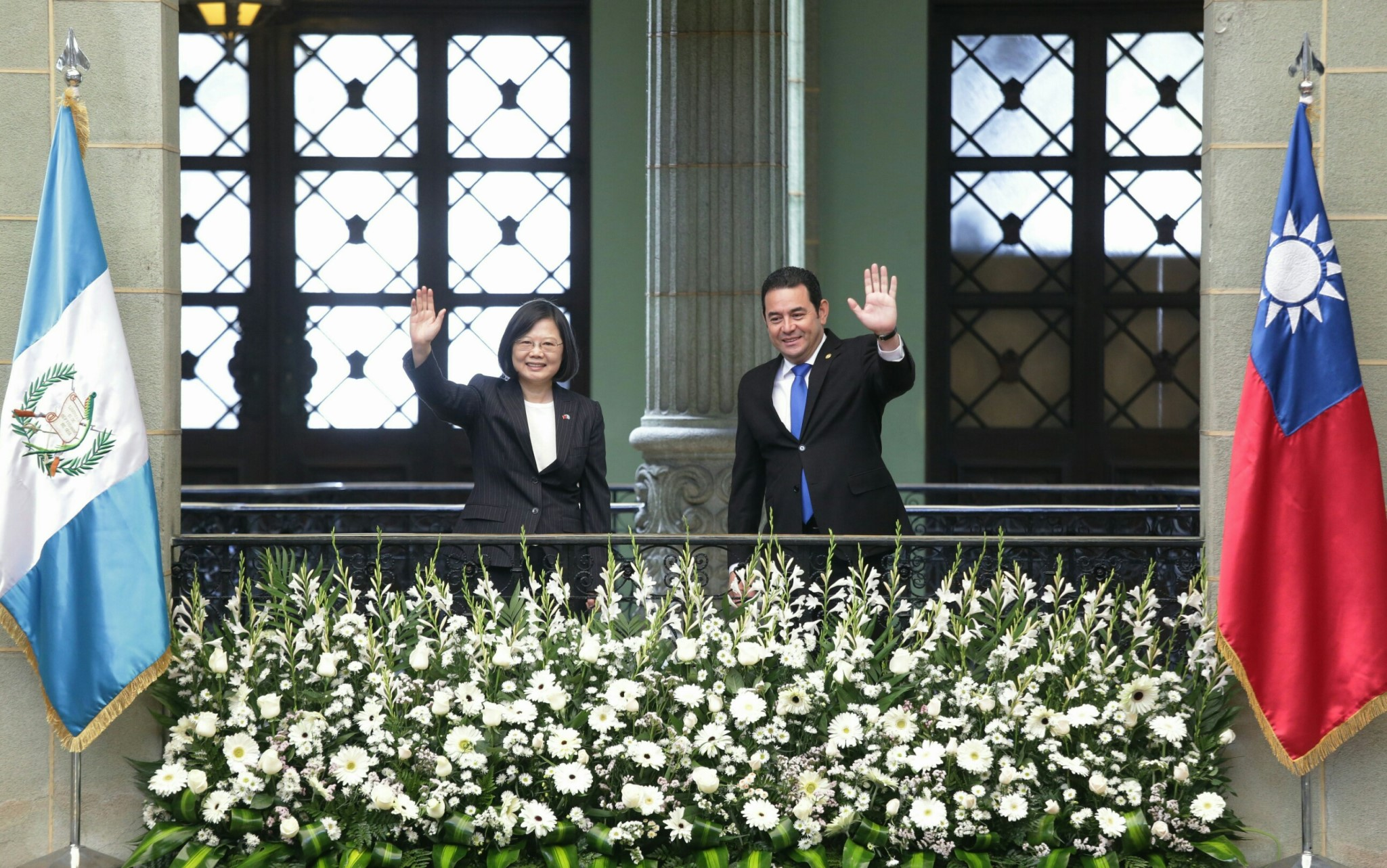 授權方式及範圍：中華民國總統府│政府網站資料開放宣告 Authorization Method & Scope: Office of the President, Republic of China (Taiwan) | Government Website Open Information Announcement